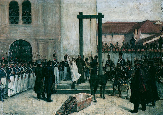 Murillo before their Ejecucción January 23 1810.